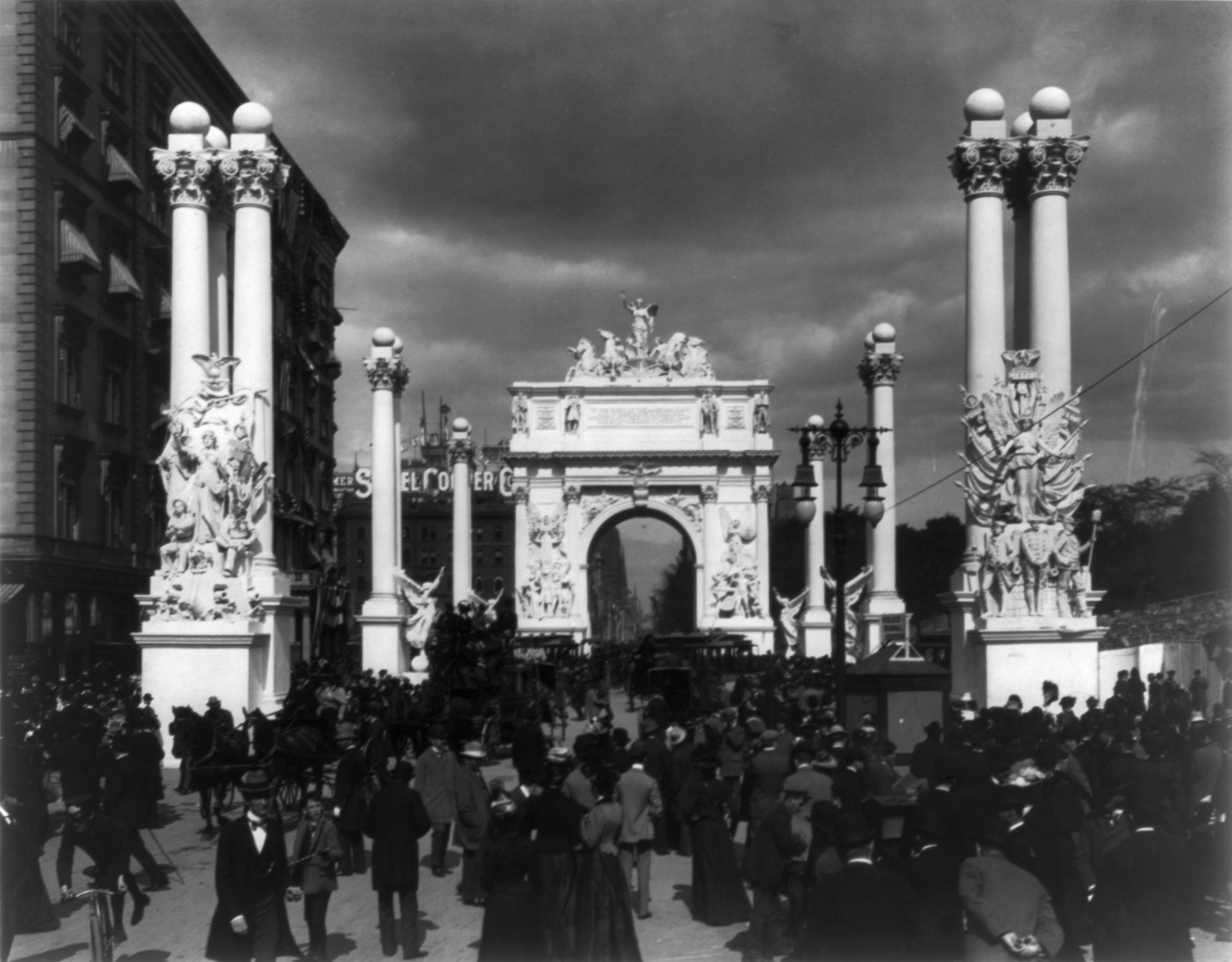 The Dewey Arch in New York City in 1899.